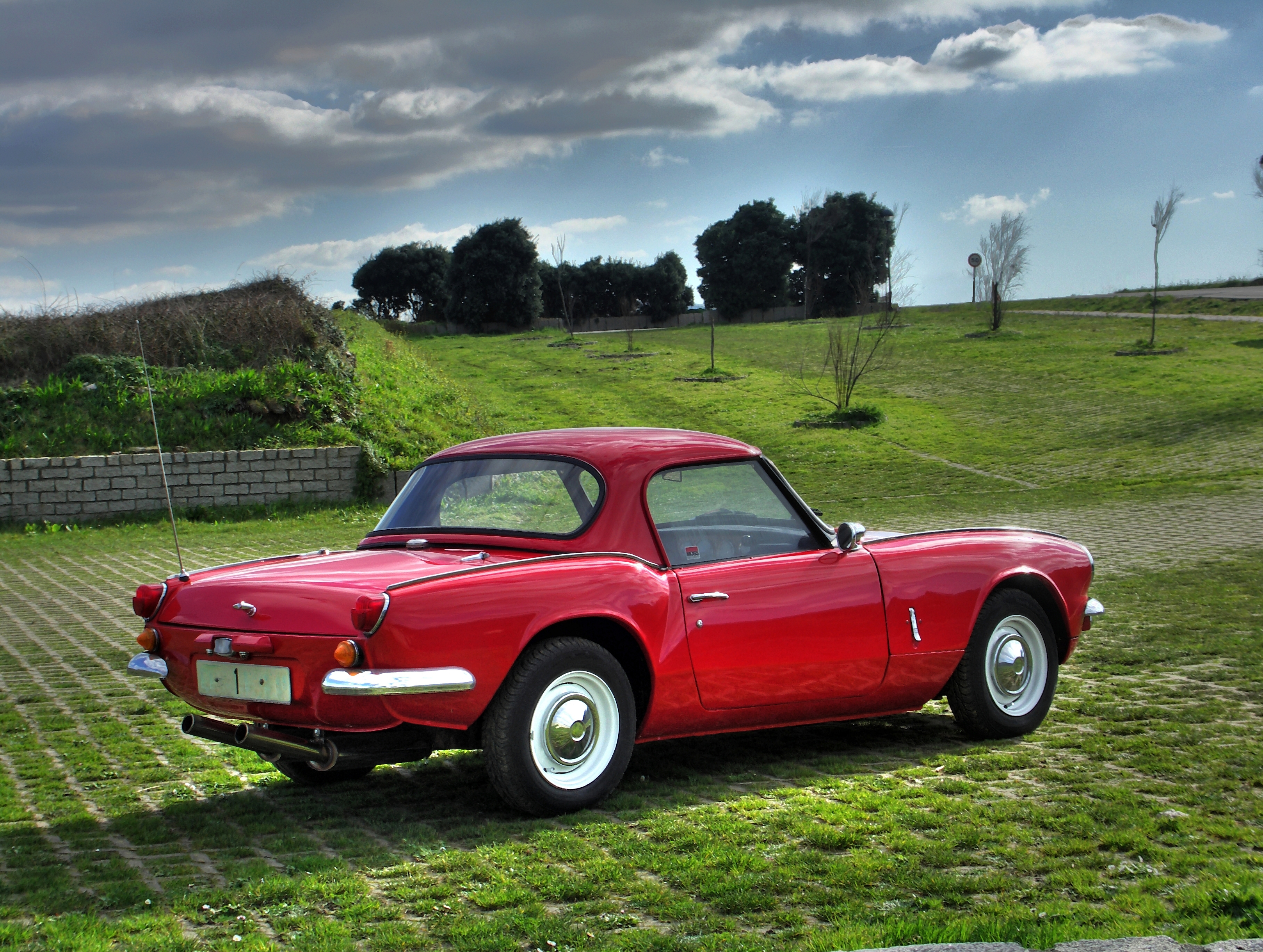 Rear view of Triumph Spitfire MK3 with winter hardtop installed (late series from FD 75.000.1970, car with windshield frame black, 4,5" wheels)